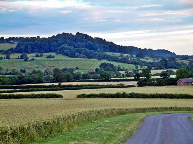 Edge Hill from Burton Hill Farm